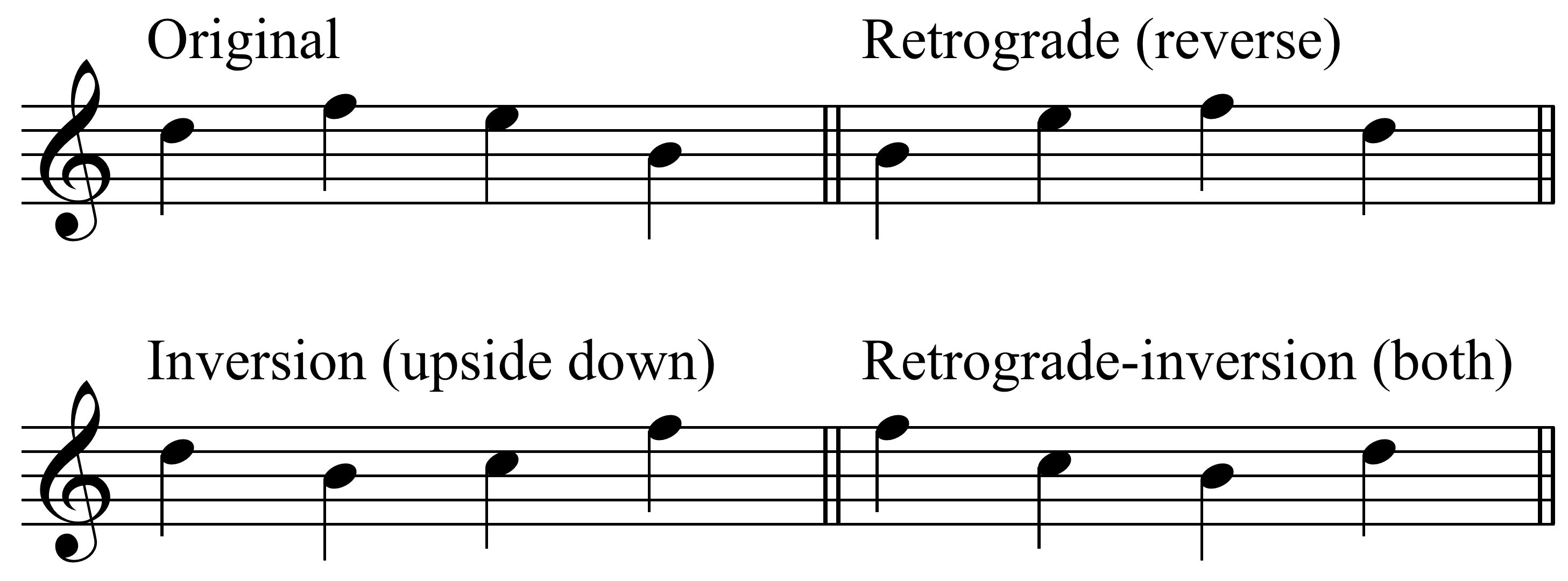 O-I-R-RI. Version of of Image:Inversions.jpg by Jubileeclipman.